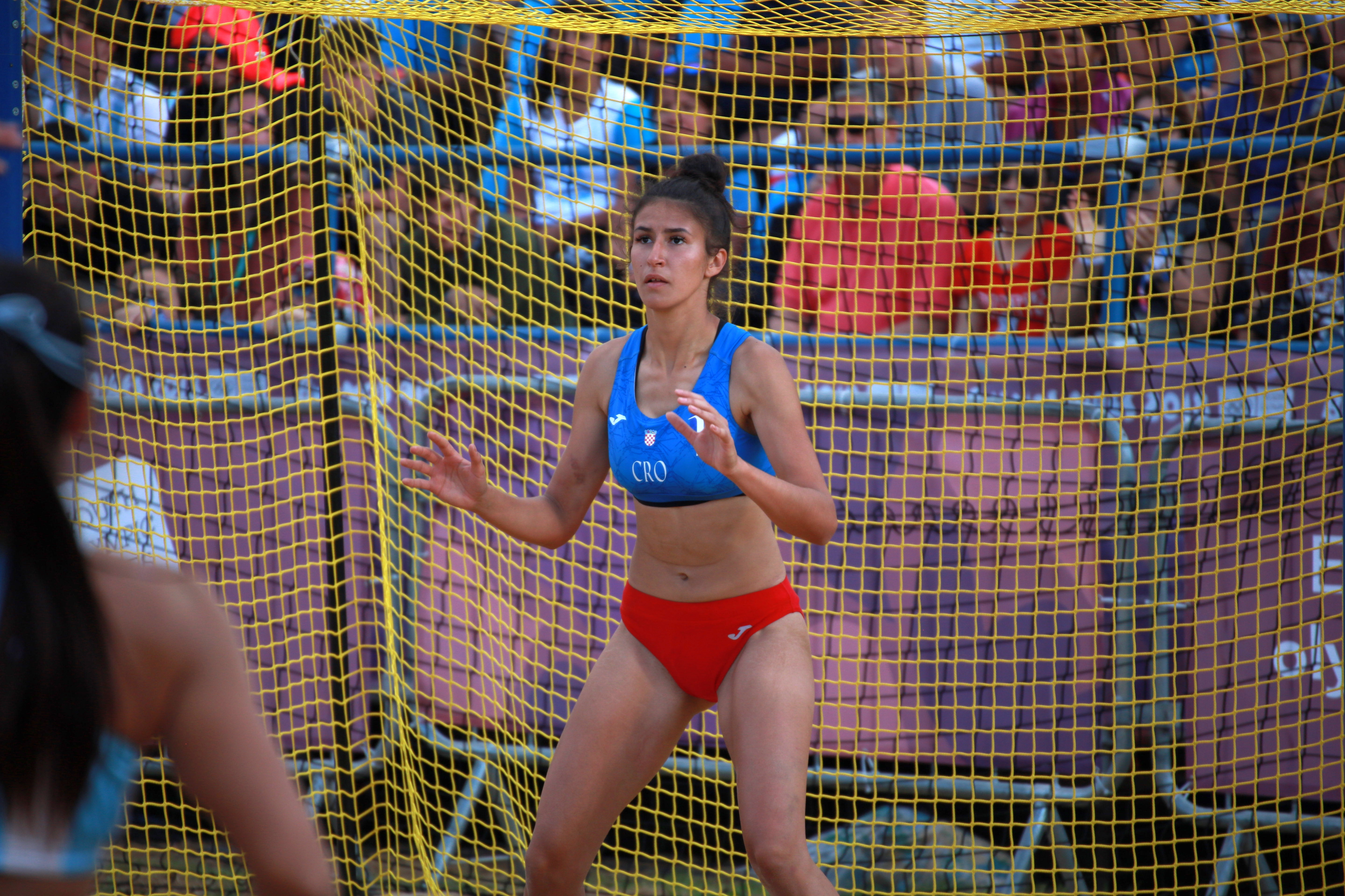 Beach handball at the 2018 Summer Youth Olympics in Buenos Aires at 13 October 2018 – Girls Gold Medal Match – Argentina-Croatia 2:0